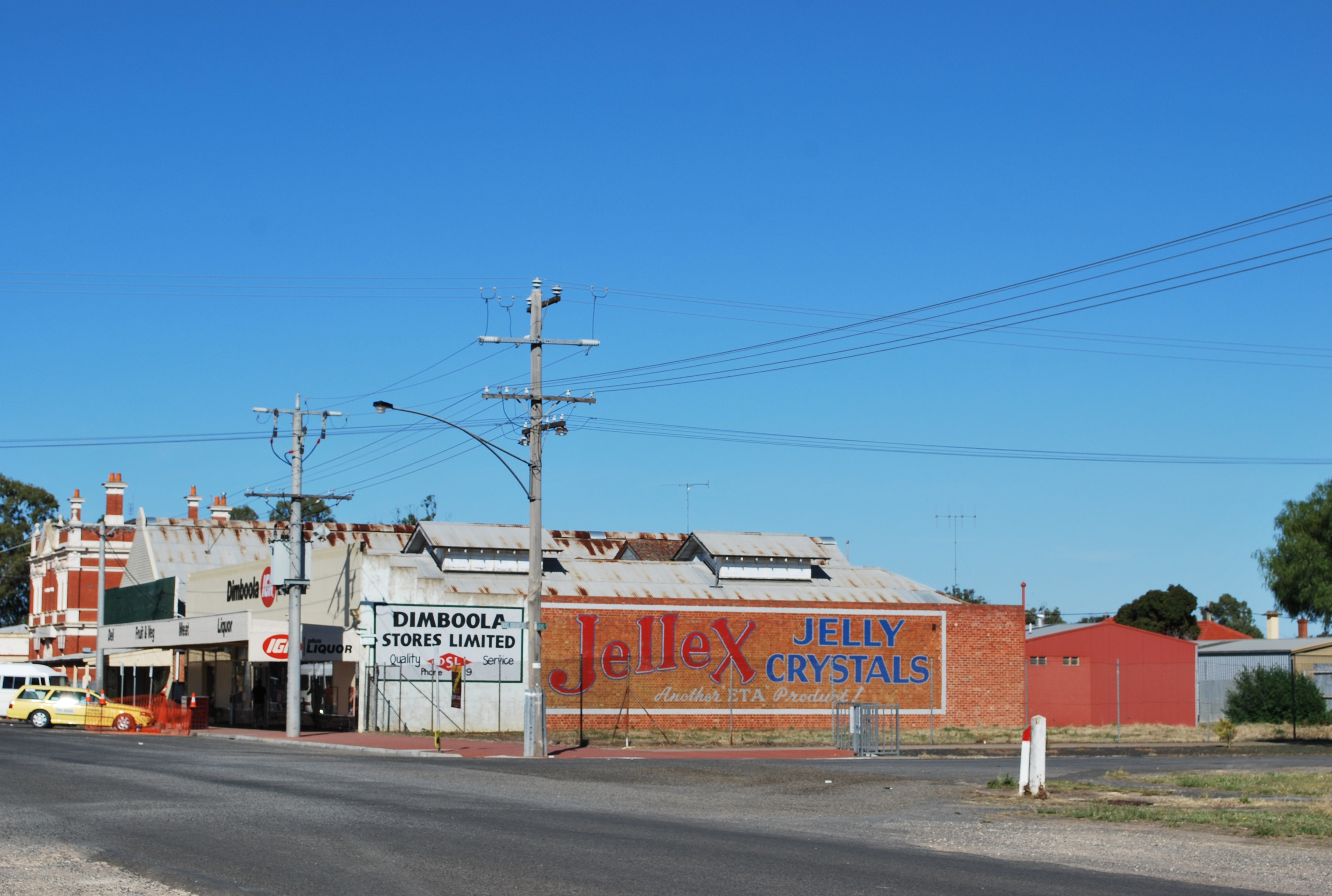 A painted advertisement for "Jellex" at Dimboola, Victoria